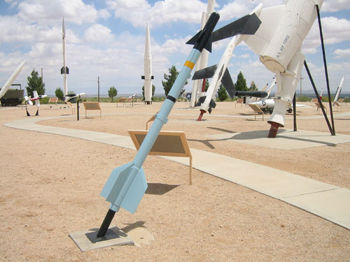 An infrared heat seeking, air-to-air missile.